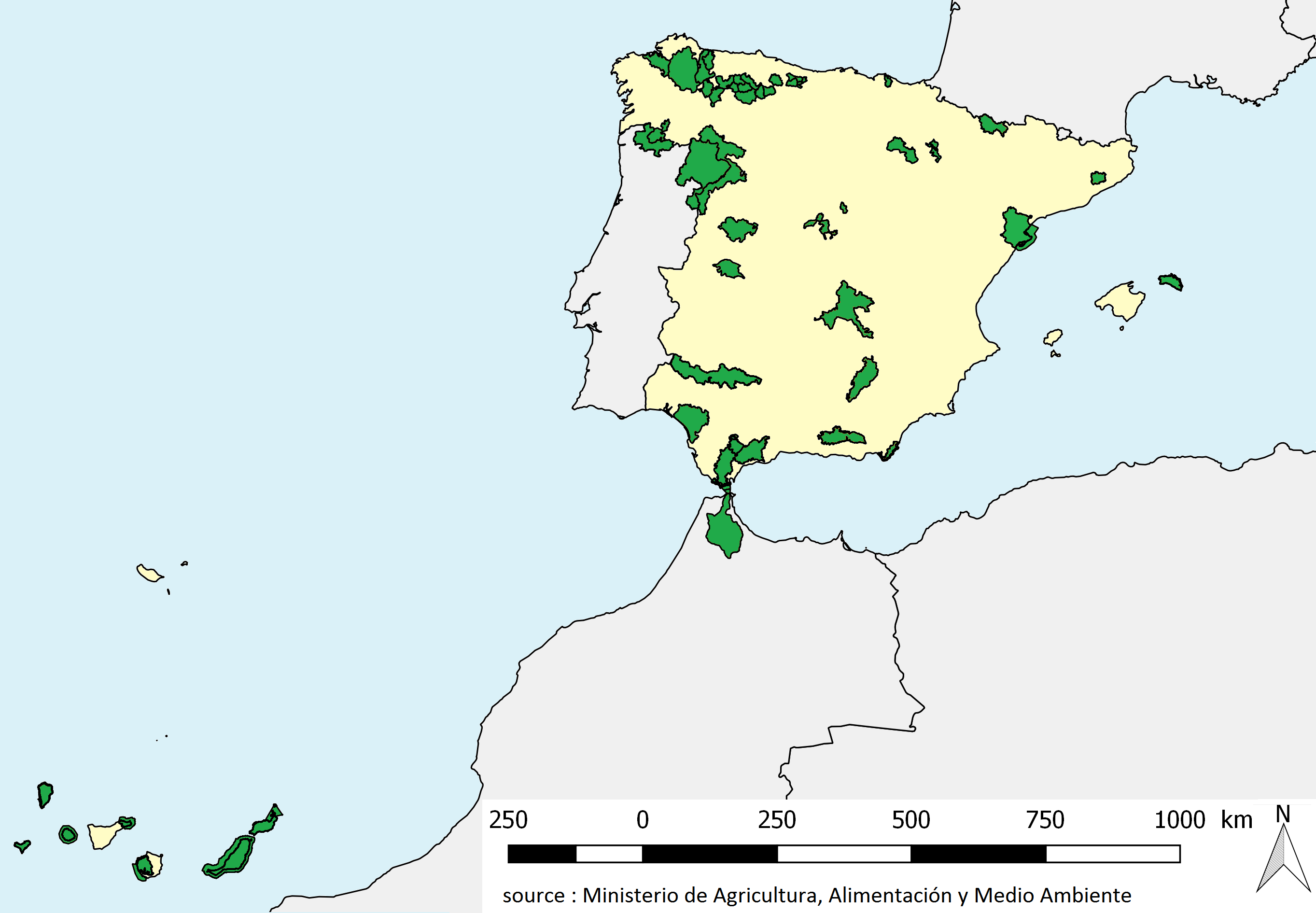 Map of biosphere reserves in Spain in green color